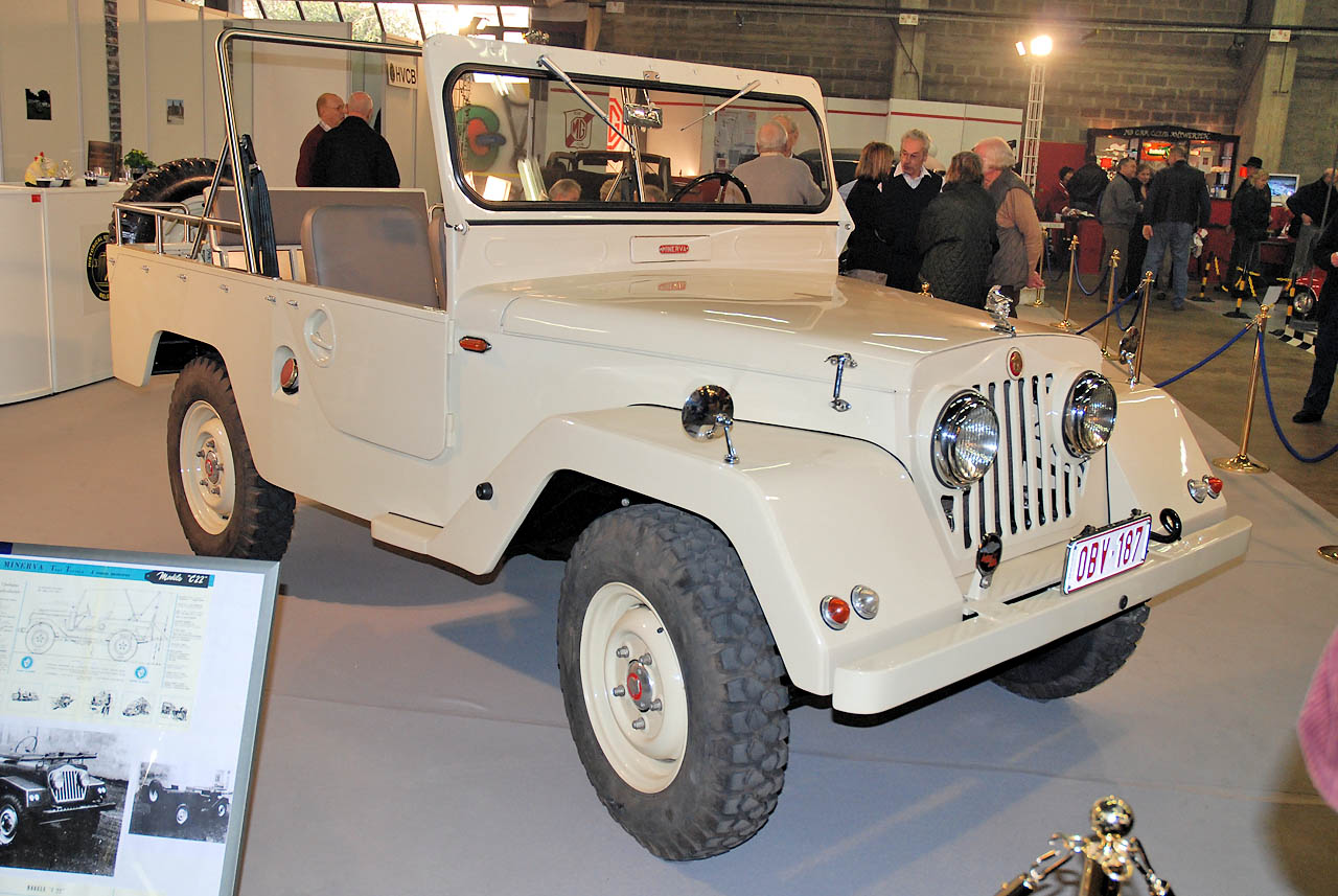 prototype civilian Jeep model powered by a Continental engine, made in Belgium by Minerva Motors SA; front right-side view